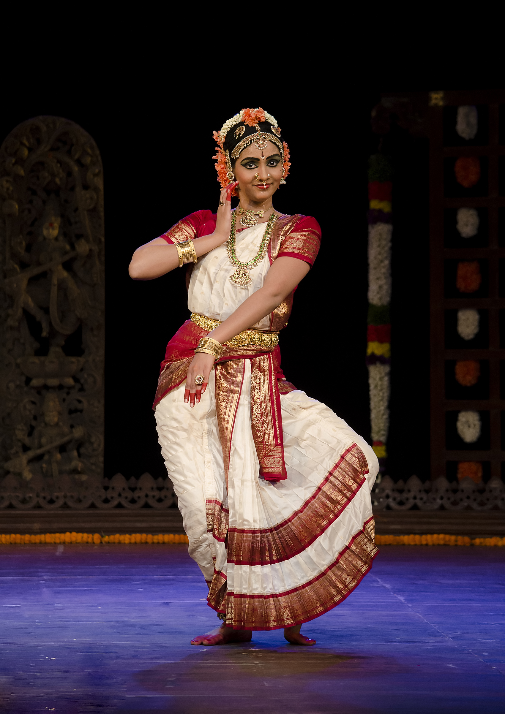 Kuchipudi performer